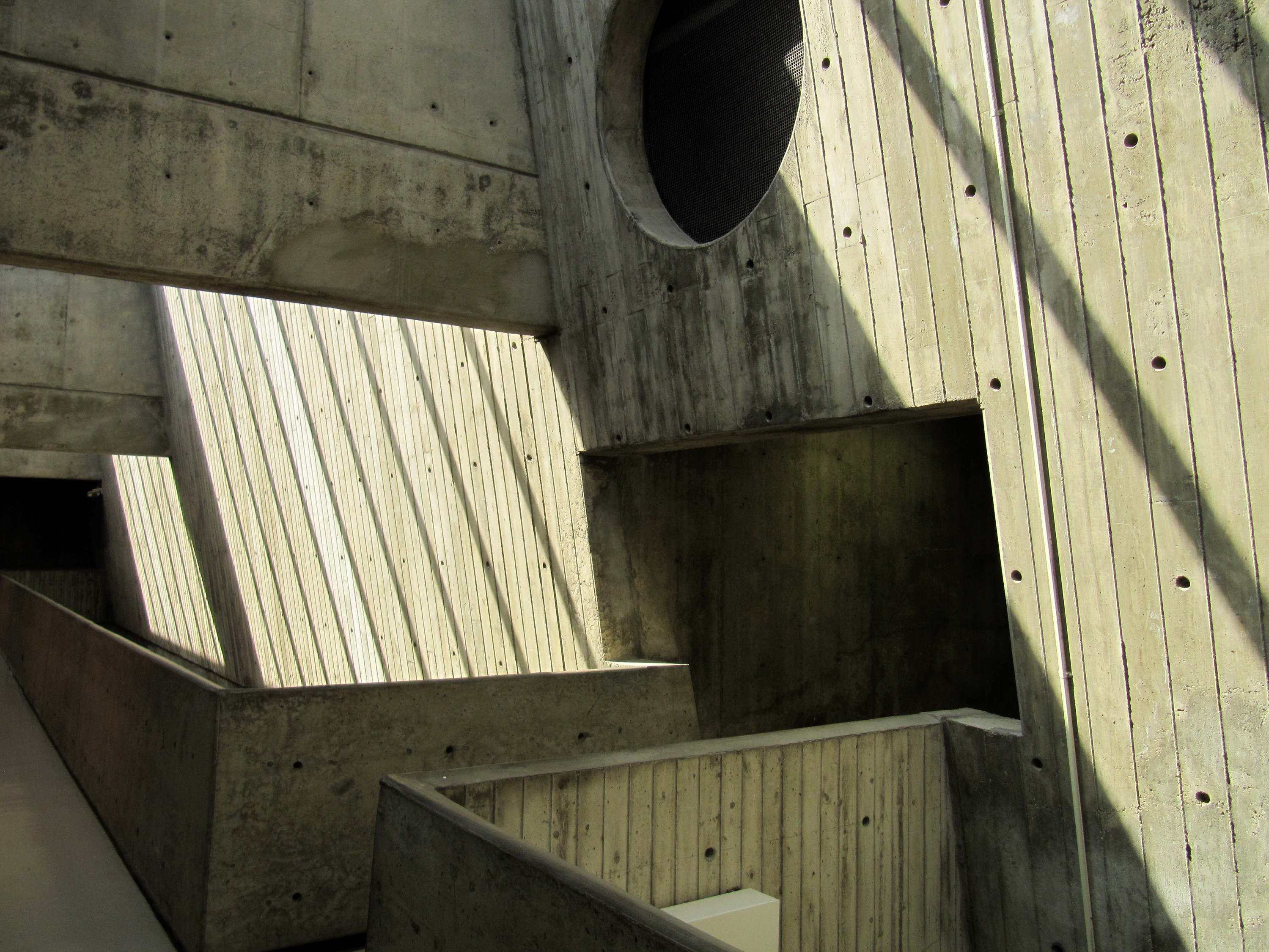 The concretey interior of the Humanities Wing at U of T Scarborough. Doors Open Toronto 2010.